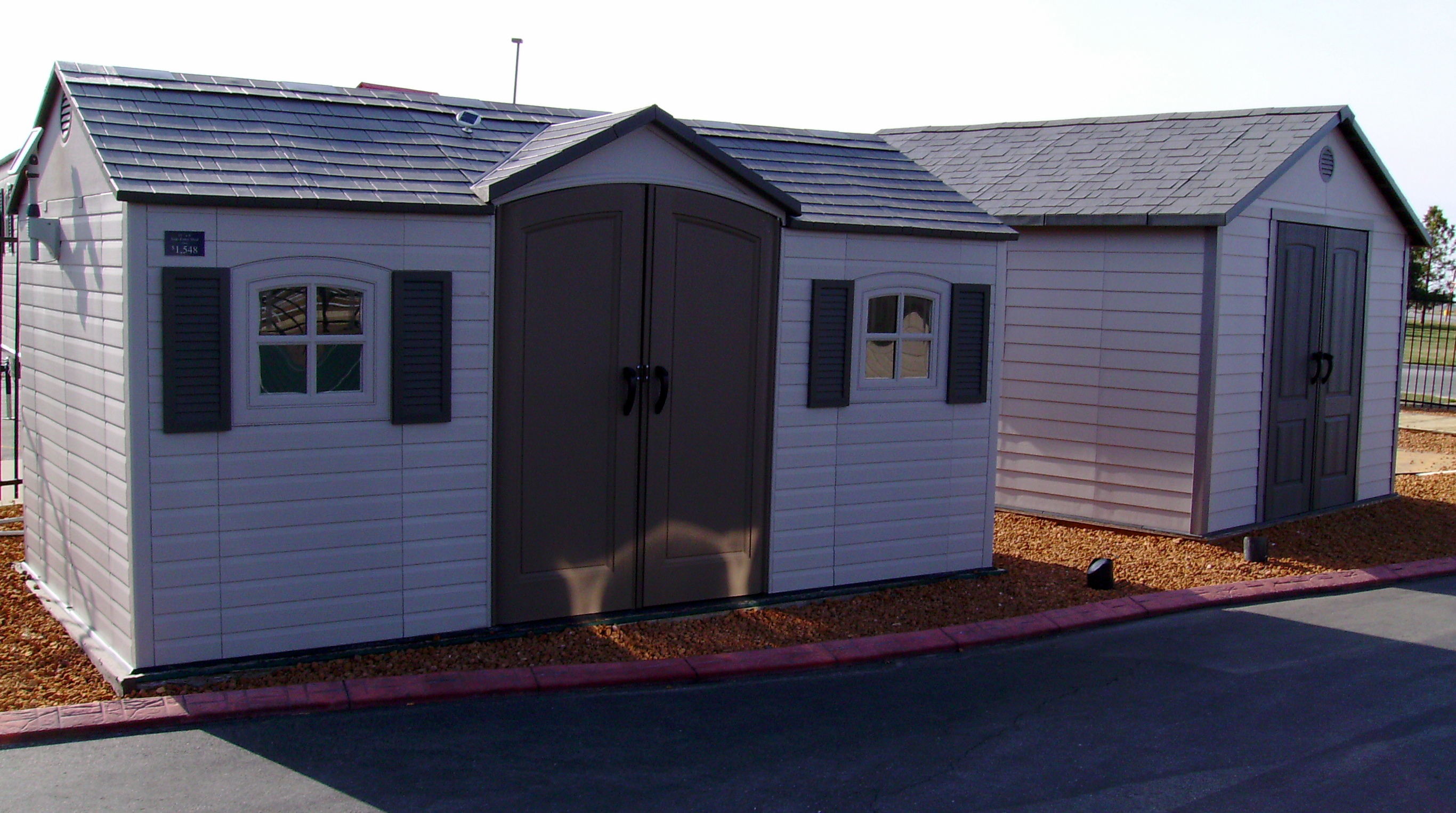 shed, sheds, Lifetime Products, out buildings back yard